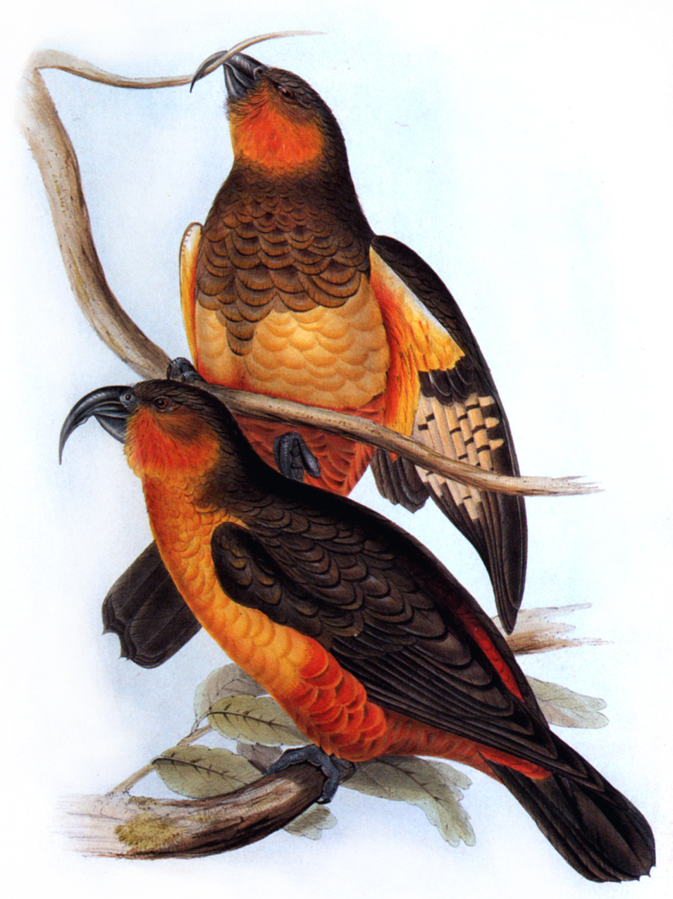 Nestor productus (Norfolk Island Kaka)